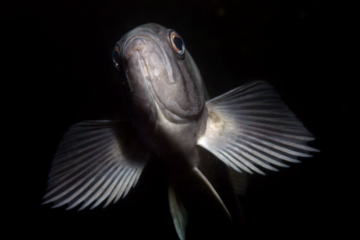 A blue rockfish in Monterey Bay National Marine Sanctuary, Calif.